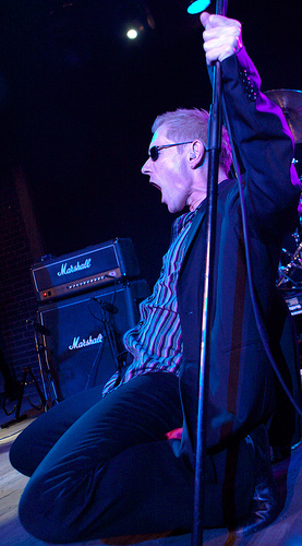 Dr Feelgood's Robert Kane on stage at Sans, Barcelona